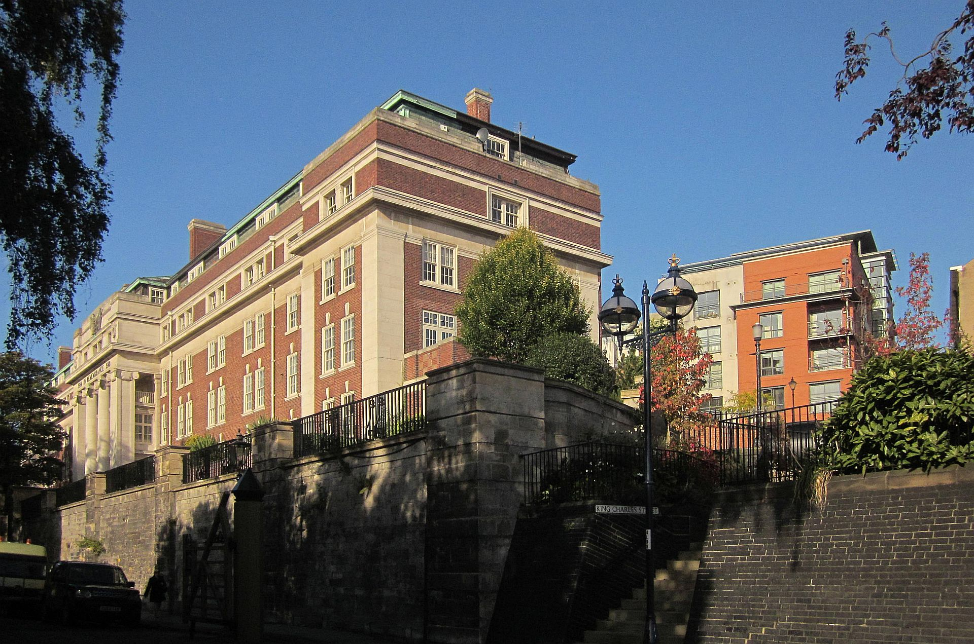 Memorial Nurses' Home, Nottingham